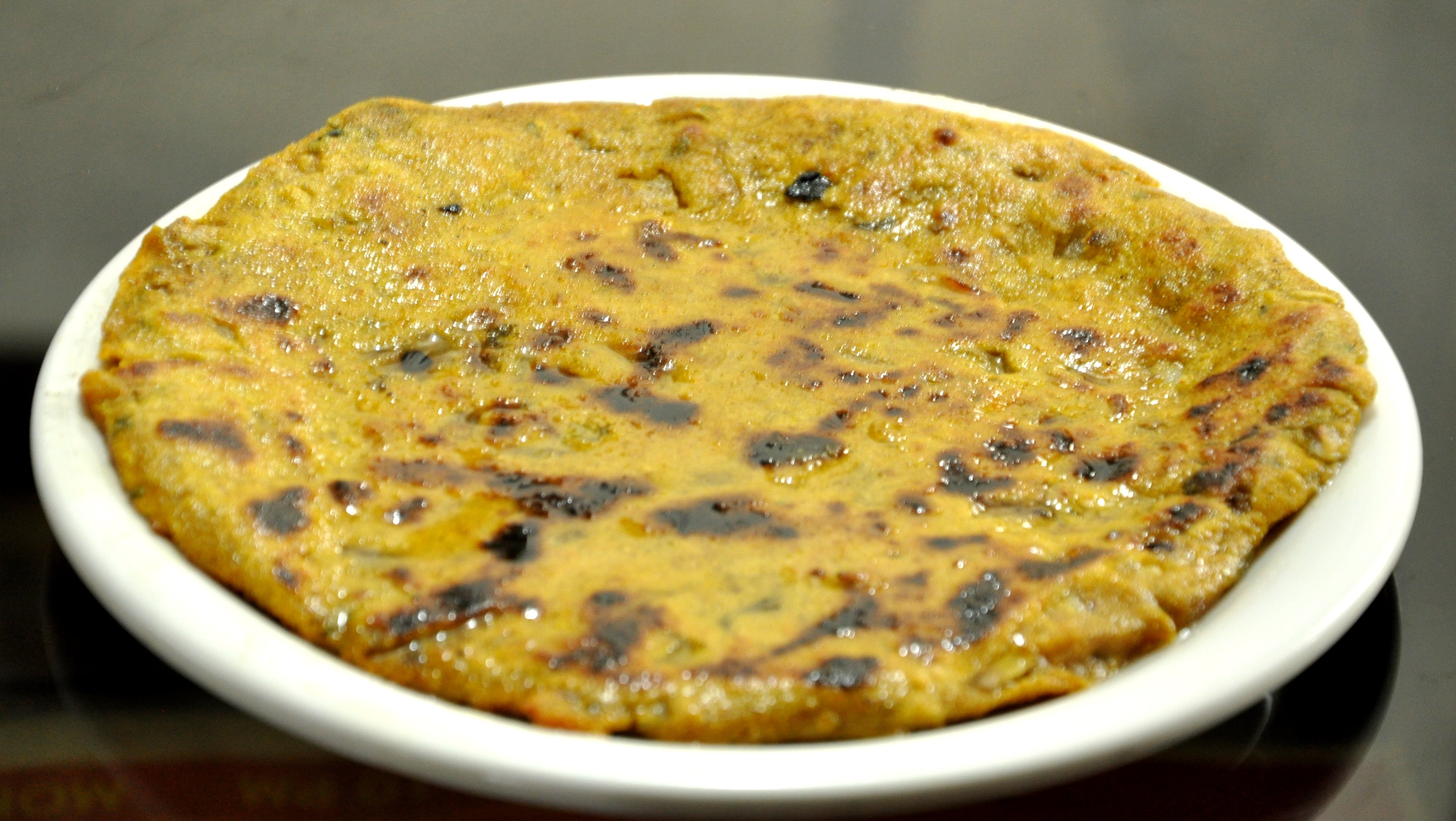 {Wiki Loves Food 2015 }